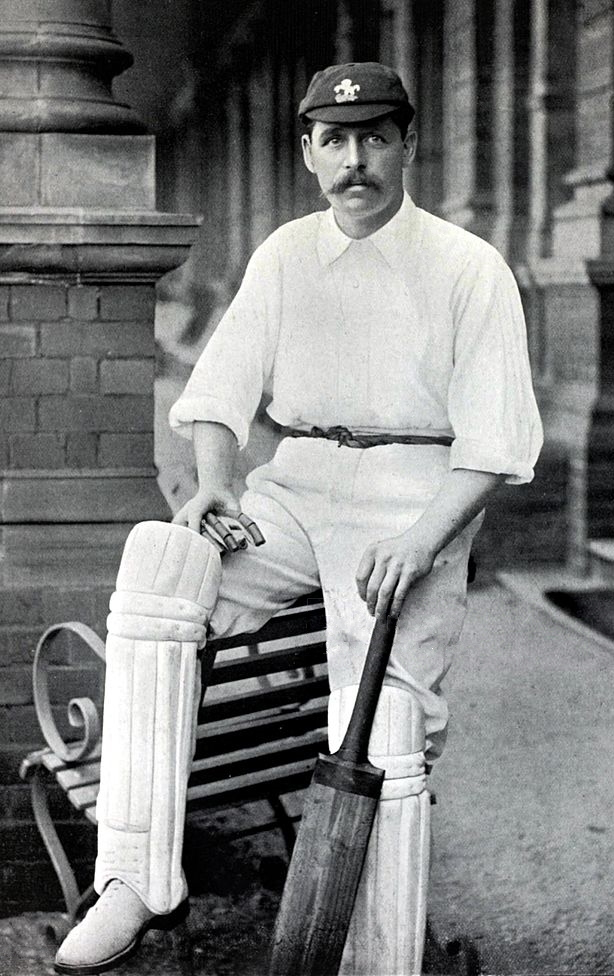 Sport, Cricket, Circa 1895, George Gibbons Hearne, Kent, (1875-1895) and England, (1888-1889), one of a large cricketing family